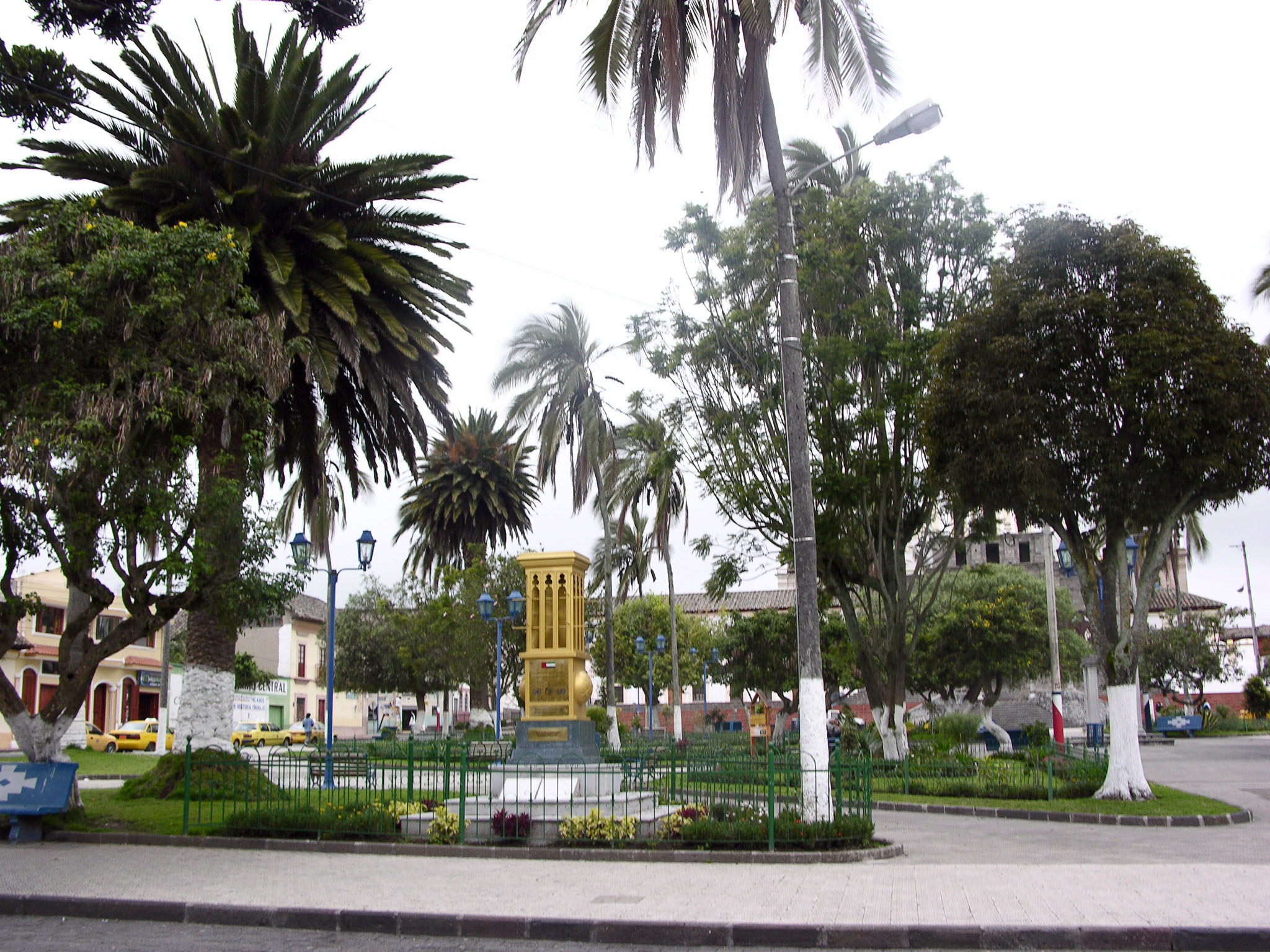 Main plaza of the town of Cotacachi, seat of the Canton of Cotacachi.